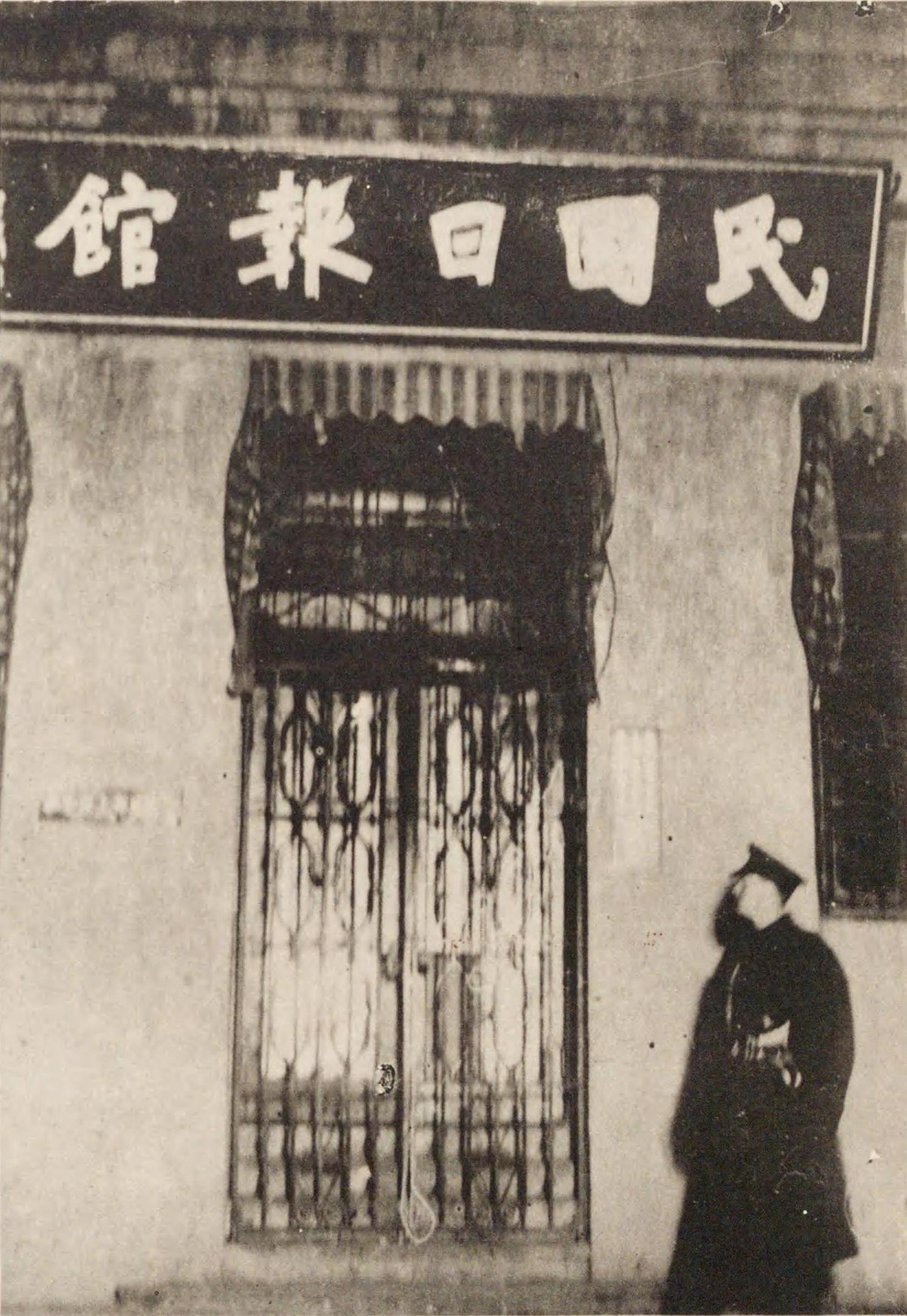 The office building of the Min Kuo Jih Pao.